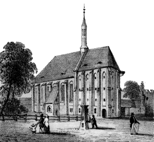 The church St. Johannis (also St. Johannes) in the German town Neubrandenburg, Mecklenburg. Originally monastery church of the Franziskanerkloster (Franciscan monastery, 13th century), closure in 1535 in the course of the Reformation and use as a Protestant church.